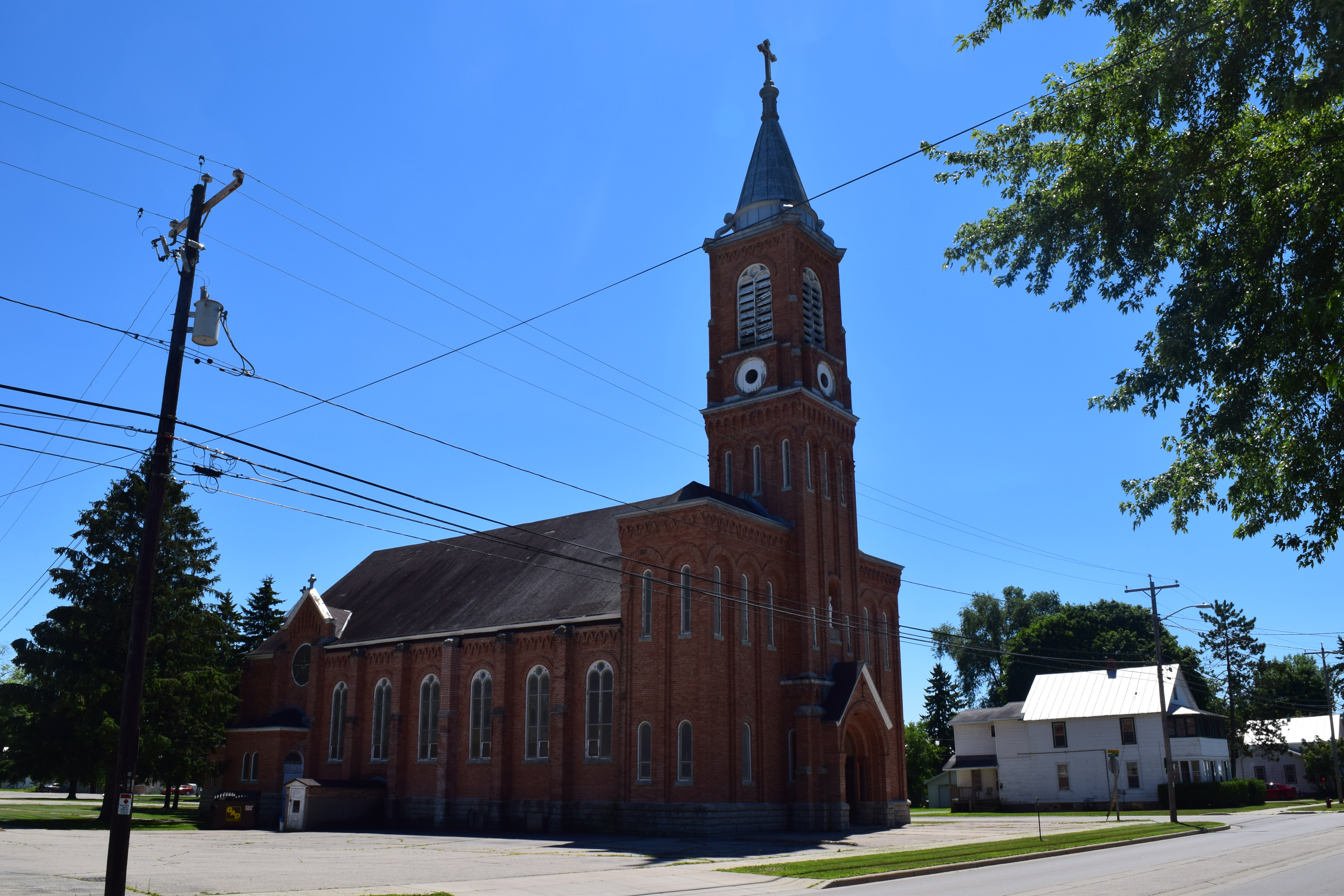 St. Peter's Catholic Church, located at 516 Brazeau Ave. in Oconto, Wisconsin. Listed on the National Register of Historic Places along with St. Joseph's Catholic Church (see St. Peter's and St. Joseph's Catholic Churches).